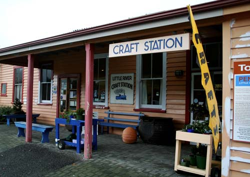 The Little River railway station on Banks Peninsula, these days used as a tourist information, craft shop and public toilets. Photograph by Jock Phillips.